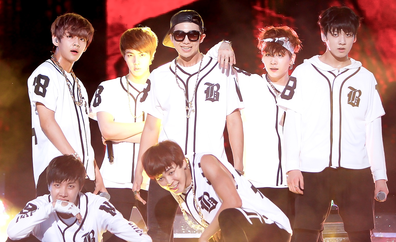 Bangtan Boys at the Incheon Music Center in September 14, 2013.